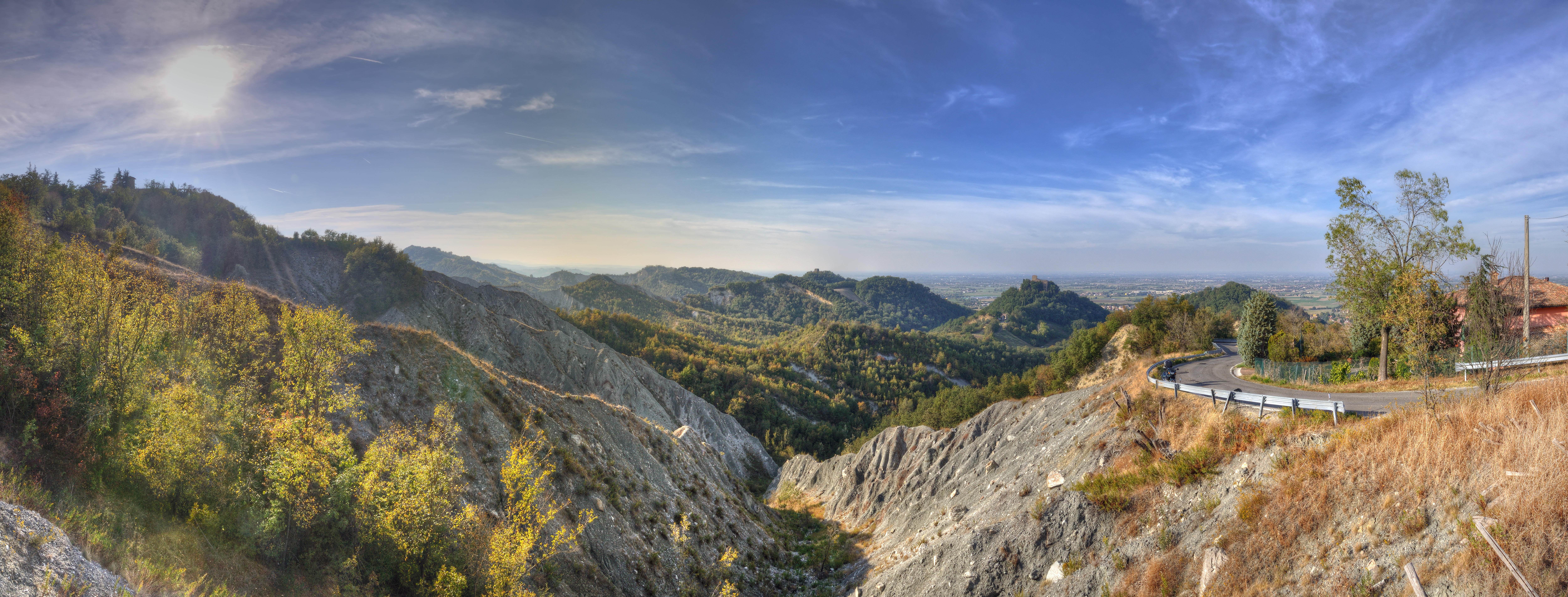 Badlands - Quattro Castella (RE) Italy - October 10, 2011